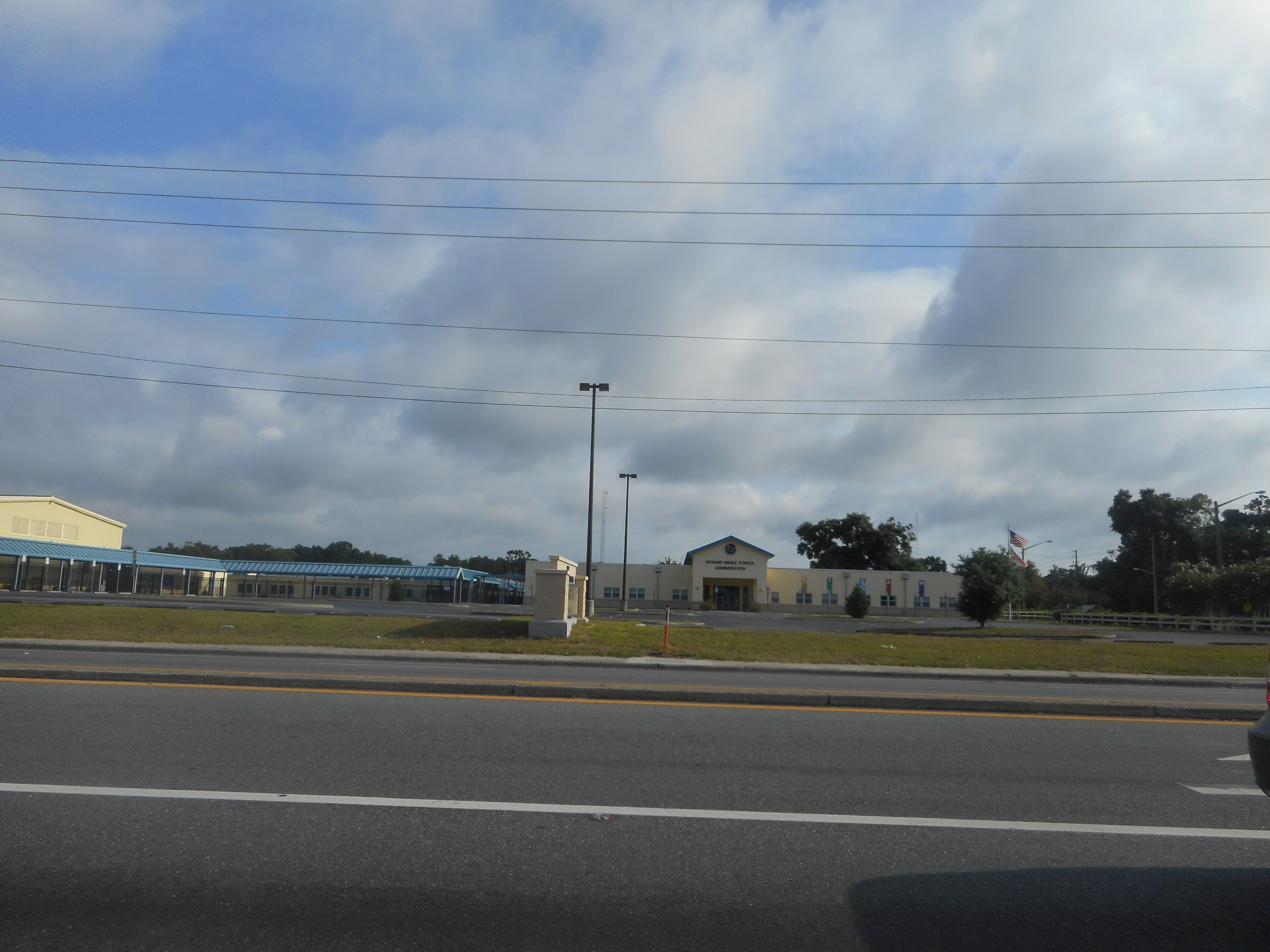 A shot of the Howard Middle School along southeast-bound U.S. Route 27 (Northwest 10th Street) in Ocala, Florida. Taken on June 1, 2019, while heading out on a day trip through Ocala National Forest and into DeLand, Florida. Admittedly, I have no idea why I took a picture of this school at the time, but I later found out it was on a list of wanted pictures from Ocala and other parts of Marion County, so here it is.